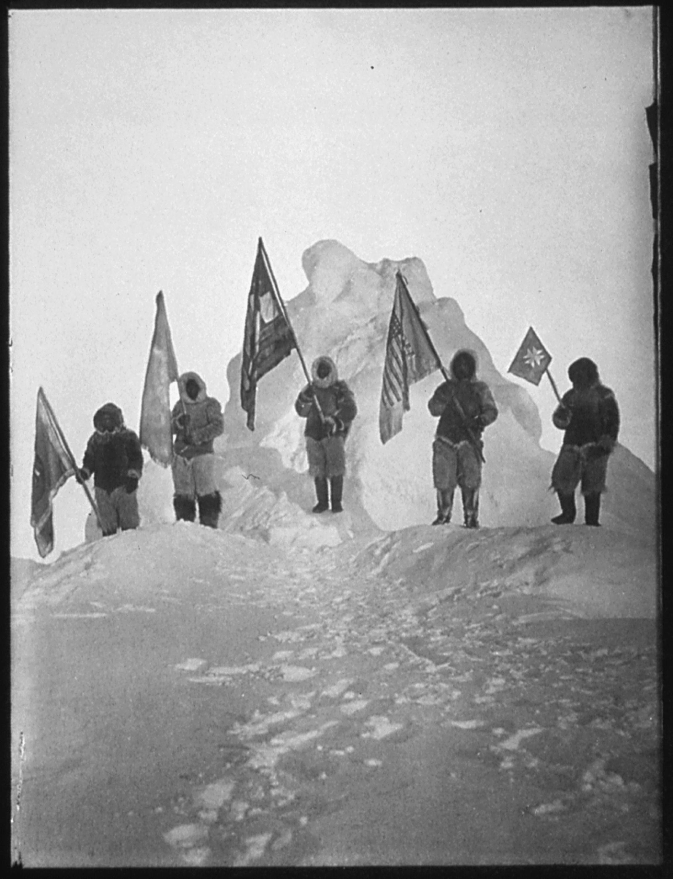 Scope and content: Original caption: Ooqueh, holding the Navy League flag; Ootah, holding the D.K.E. fraternity flag; Matthew Henson, holding the polar flag; Egingwah, holding the D.A.R. peace flag; and Seeglo, holding the Red Cross flag.